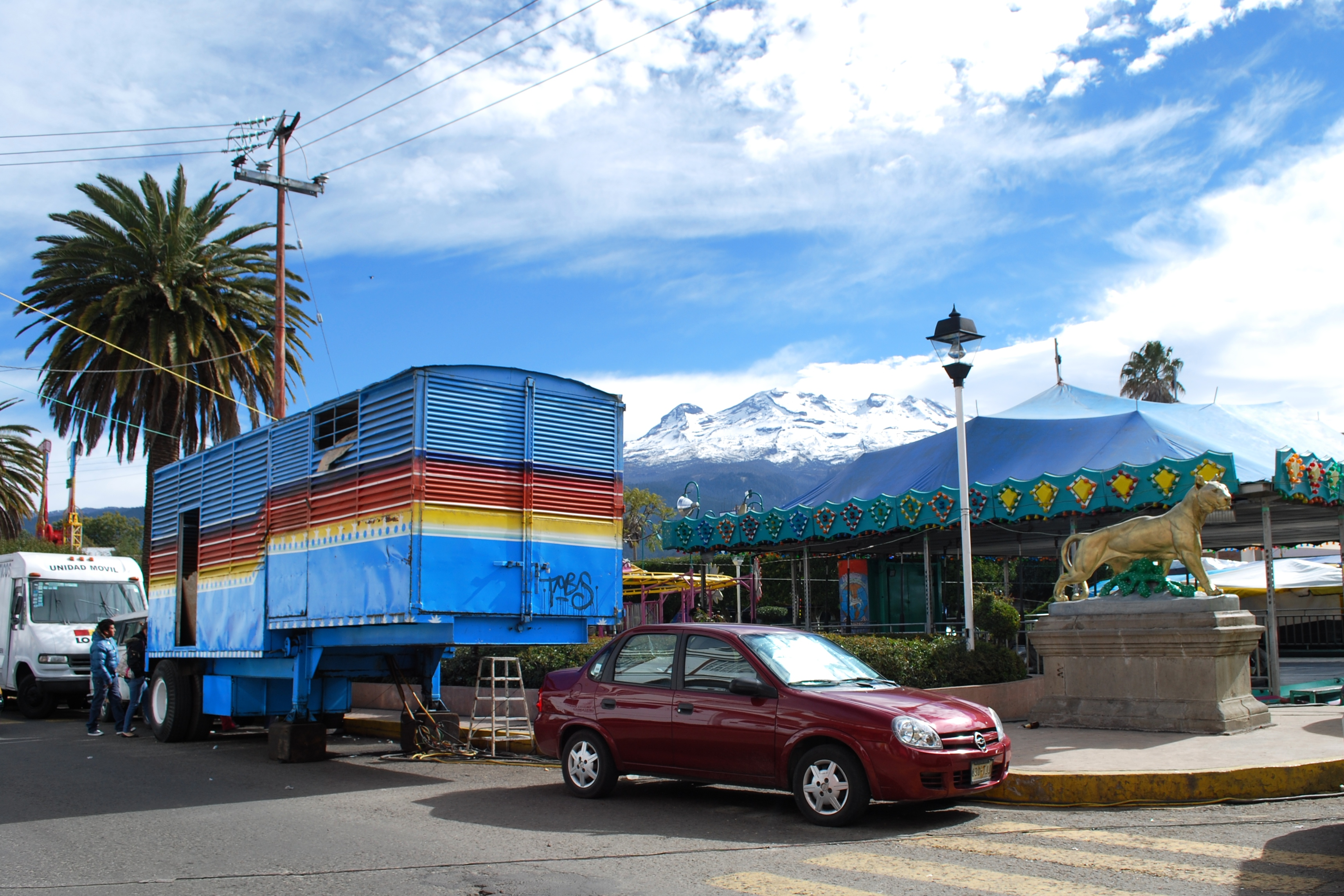 Main plaza filled with a carnival for the Festival of the Señor del Sacromonte in Amecameca, Mexico State